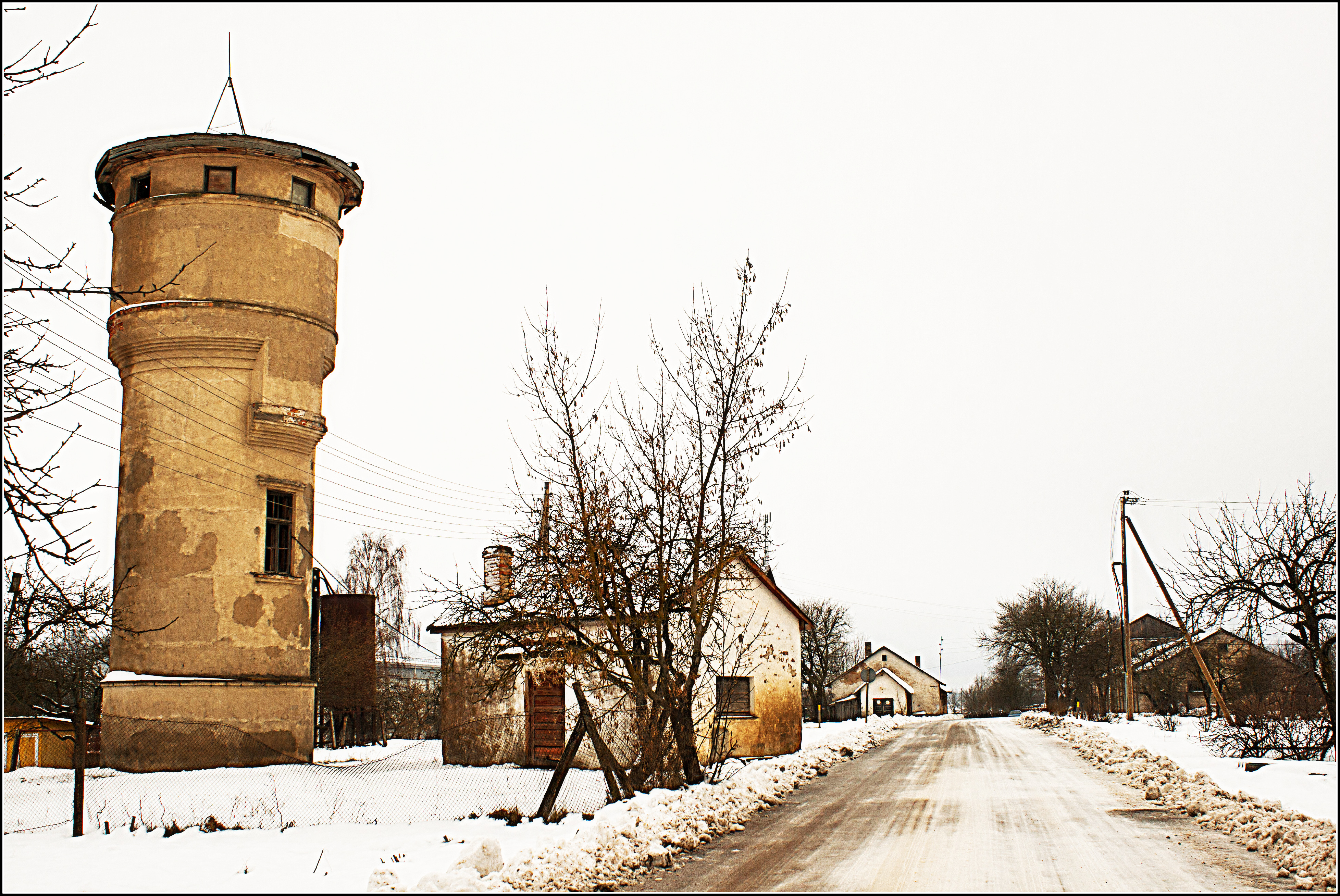 Pūre water tower